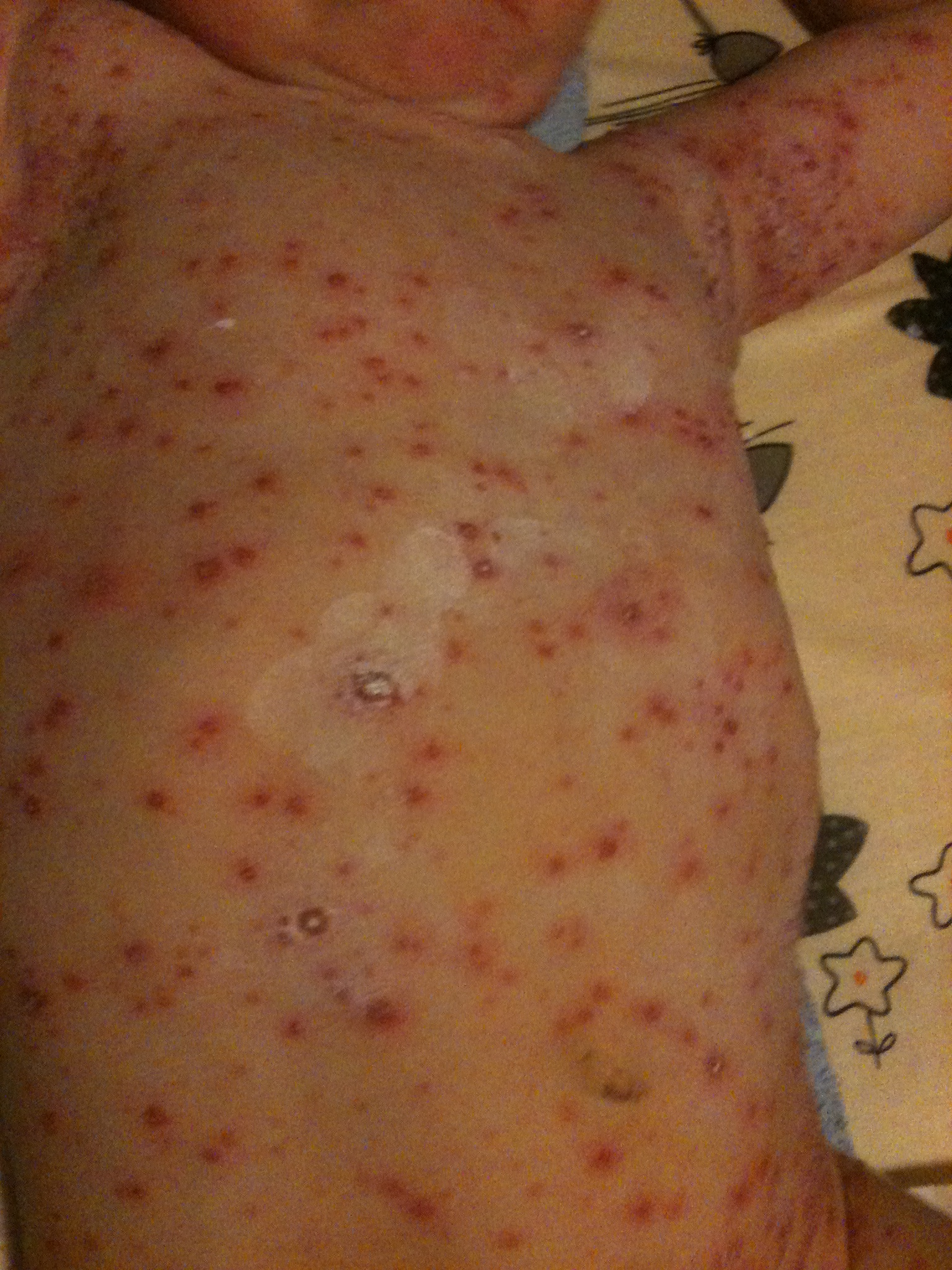 Two year old boy with chickenpox.